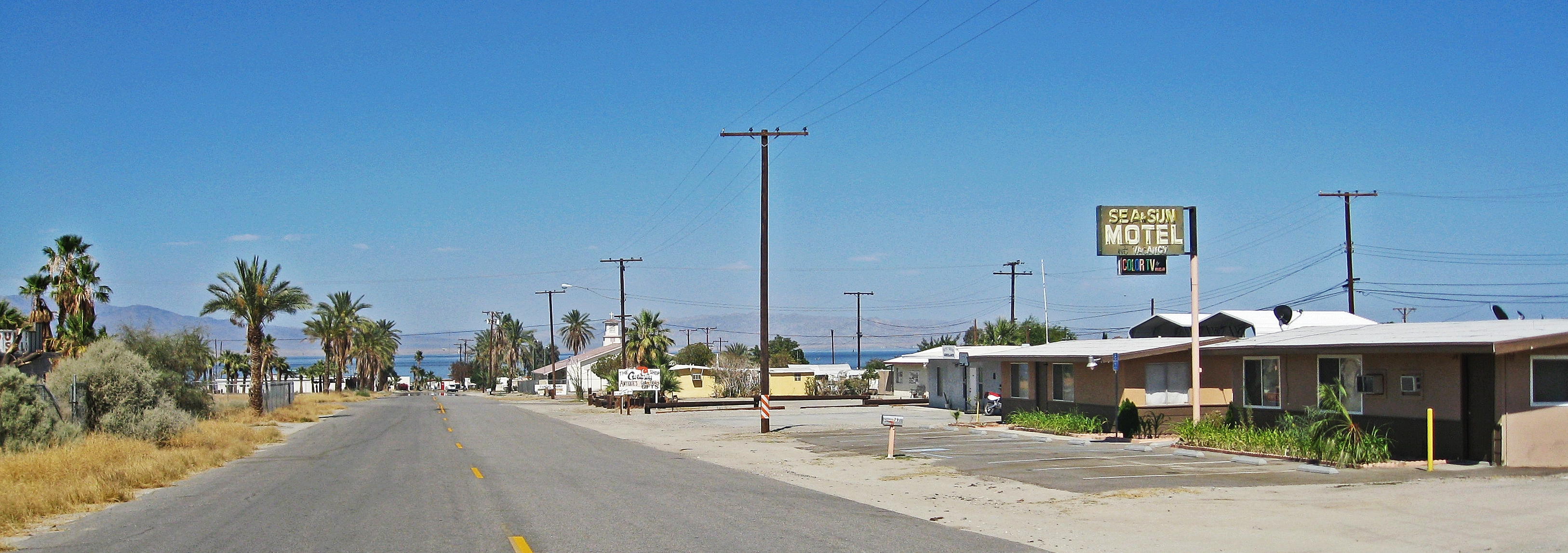 Desert Shores, CA, looking east on Desert Shores Drive toward the Salton Sea